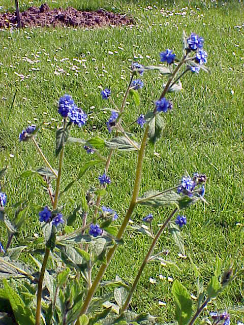 Species: Pentaglottis sempervirens Family: Boraginaceae Image No. 2